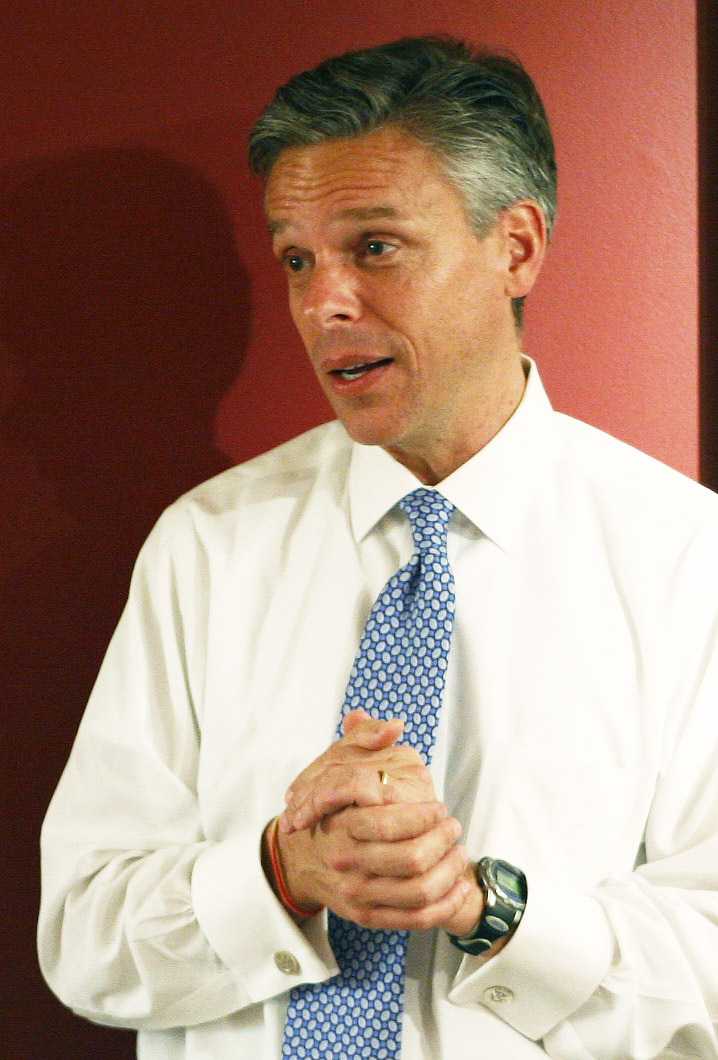 Utah Governor Jon Huntsman Jr. taken at a January 2007 dinner function.